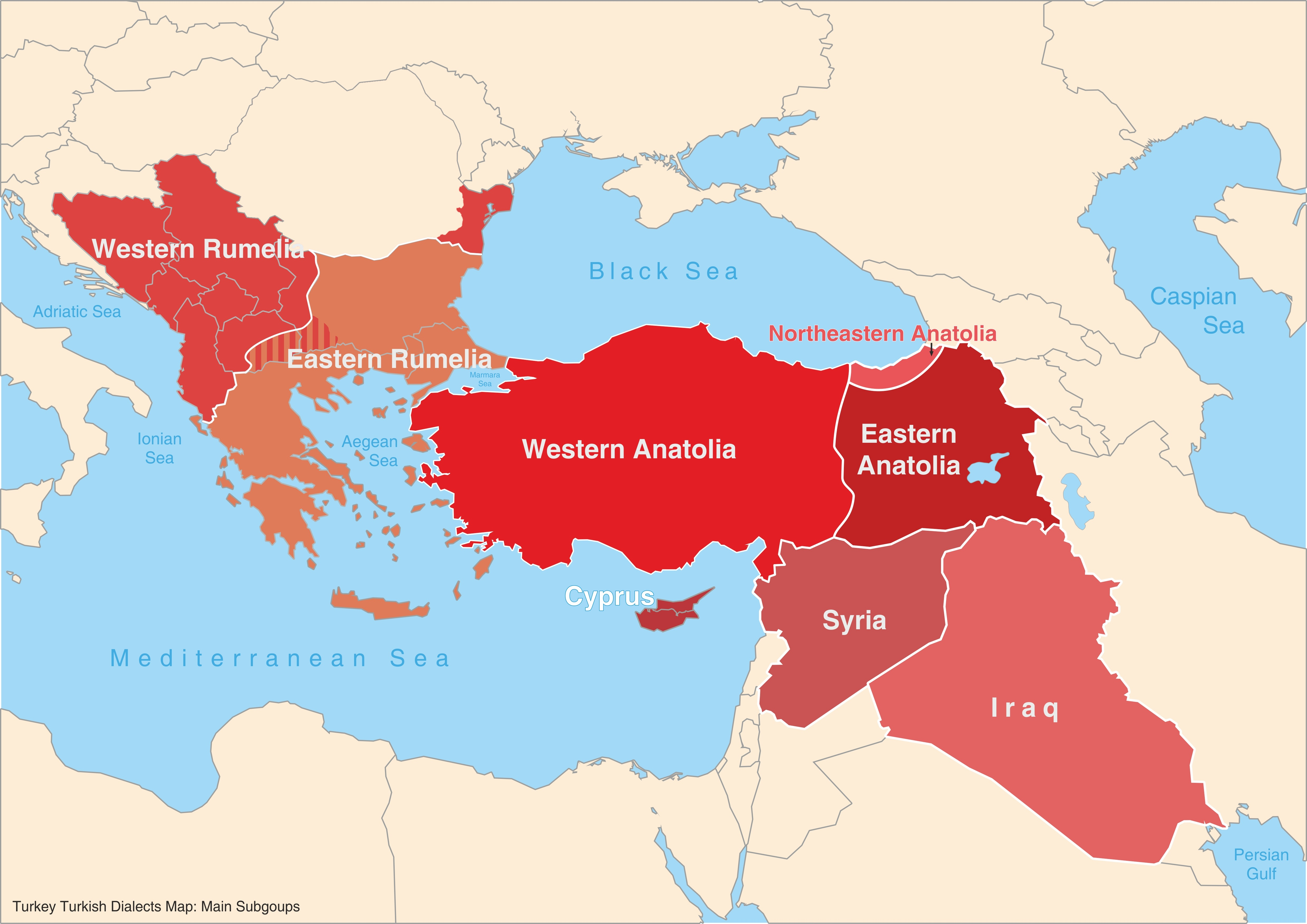 Turkey Turkish dialects map: Main subgroups References of Map: Main references: Karahan, Leyla 1996, Anadolu Ağızlarının Sınıflandırılması, Türk Dil Kurumu, Ankara Németh, Gyula 1983, “Bulgaristan Türk Ağızlarının Sınıflandırılması Üzerine”, TDAY Belleten 1981-1982, Türk Dil Kurumu, Ankara, 113-167 Other references: Bayatlı, Hidayet Kemal 1996, Irak Türkmen Türkçesi, Türk Dil Kurumu, Ankara Demir, Nurettin 2003, “Kıbrıs Ağızları Üzerine Çeşitlemeler”, Türk Dili, Sayı 614 / Şubat 2003, 203-208 İğci, Alpay 2013, “Konuşulan Dil Türkiye Türkçesinin Sahası”, Ufuk Dergisi, S: 21, Ocak-Mart 2013, 6-8 Saracoğlu, Erdoğan 2012, Kıbrıs Ağzı, Akçağ, Ankara